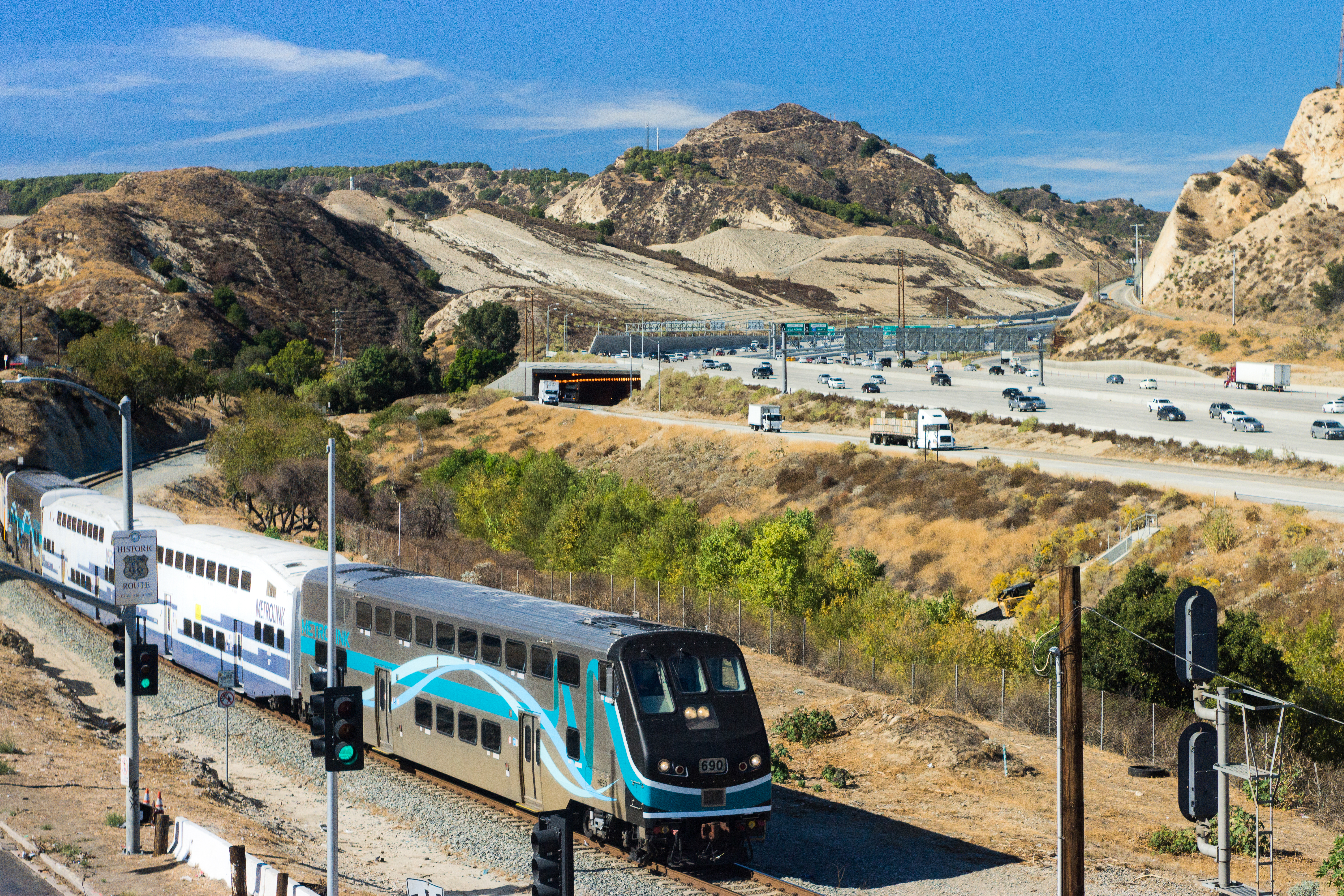 Metrolink I5 - Balboa